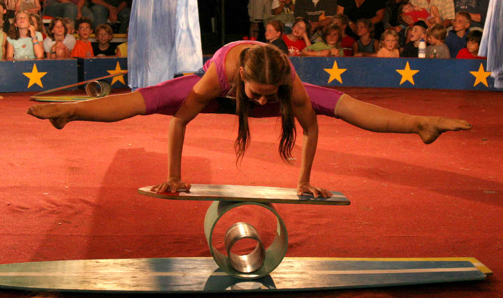 Doing a split while balancing on hands on a rola bola in 2006 by a performer in Circus Smirkus, a summer circus based in Greensboro, Vermont that travels around New England. Most members of its troupe are 10 to 18 years old. The sessions of its summer circus camp run from two days to two weeks.